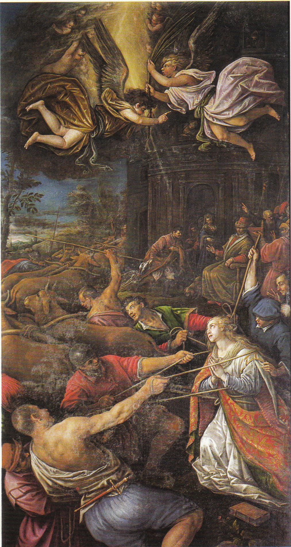 executed for the altar, where the relic of the Saint lay, which arme now in Santa Geremia